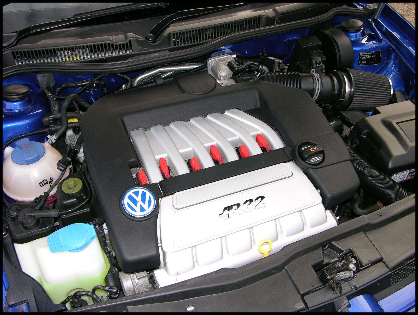 A 3.2 litre Petrol engine mounted in a Volkswagen Golf Mk4 R32